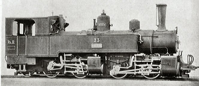 Swiss Mallet tank locomotive G 2/2+2/3 Nr. 23 Maloja of the RhB, built in 1896 by SLM Winterthur, selled to power stations Oberhasli in 1926, scrapped in 1940.